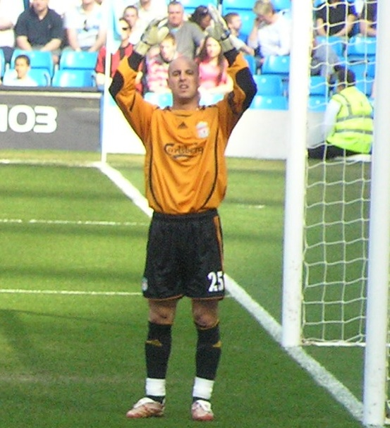 Image of Pepe Reina, Liverpool FC player